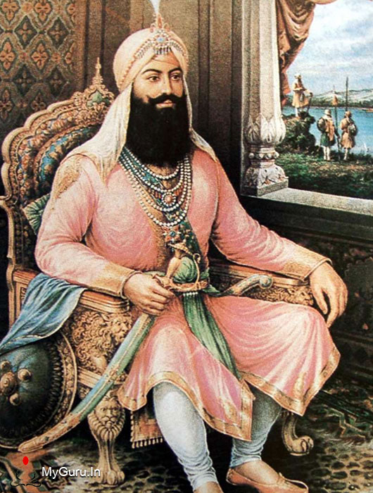 Sardar Jassa Singh Ramgharia seated upon his throne.